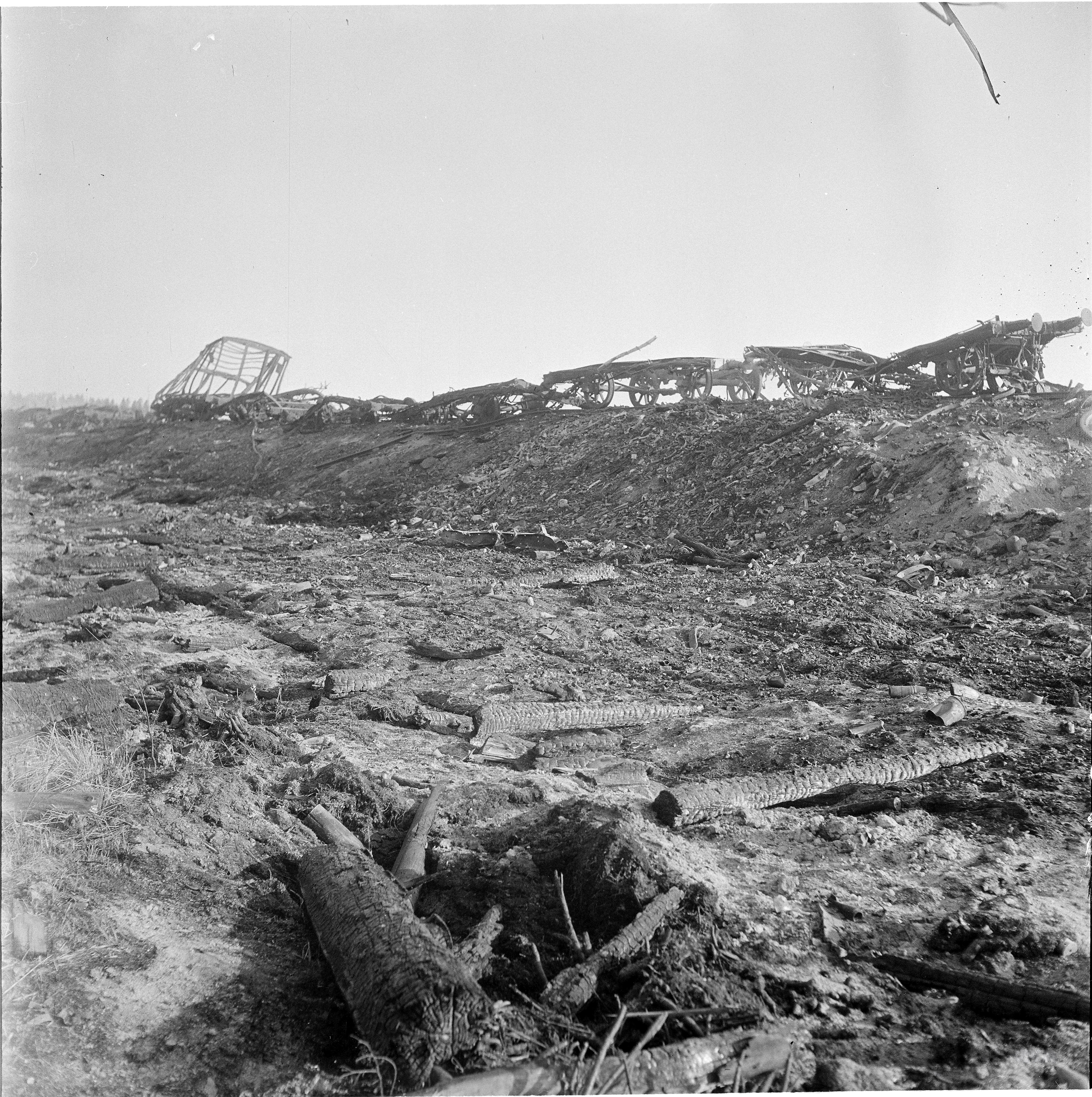 Yleiskuva rjhdysalueelta.